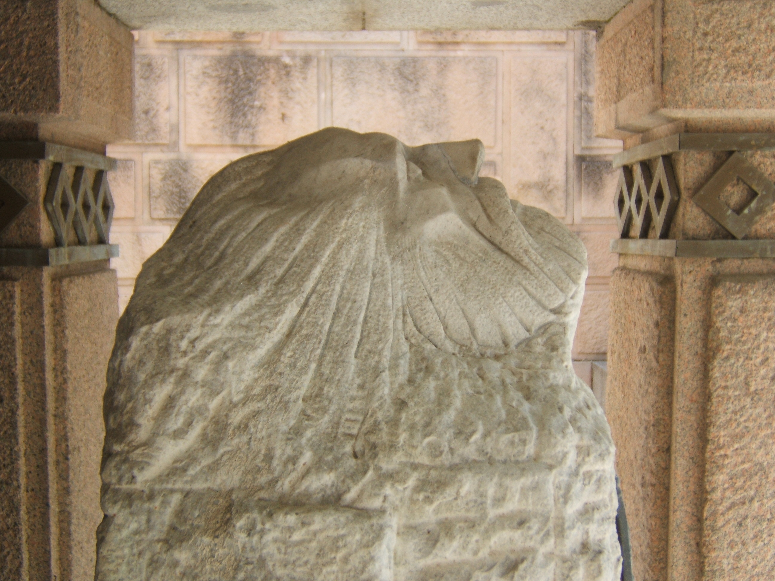 Works by Emiliano Barral (1896-1936) in the Civil cemetery in Madrid. Detail of the sculpture's head lying of the Socialist leader Pablo Iglesias in his mausoleum.